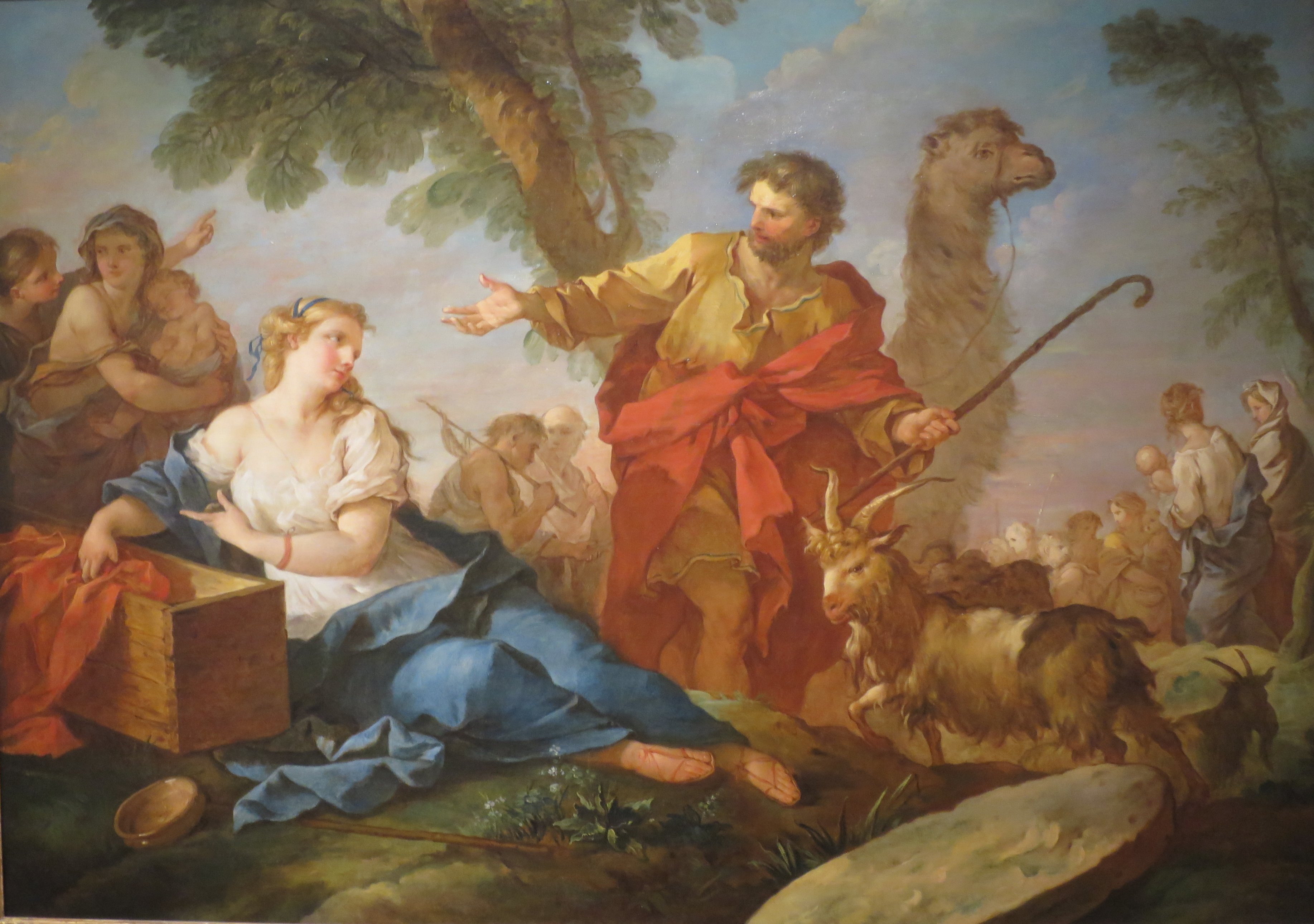 Jacob and Rachel Leaving the House of Laban by Charles-Joseph Natoire, oil on canvas, 1732, High Museum of Art